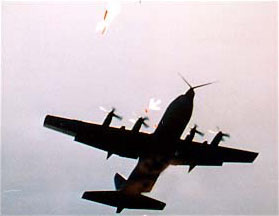 Fulton surface-to-air recovery system on a HC-130